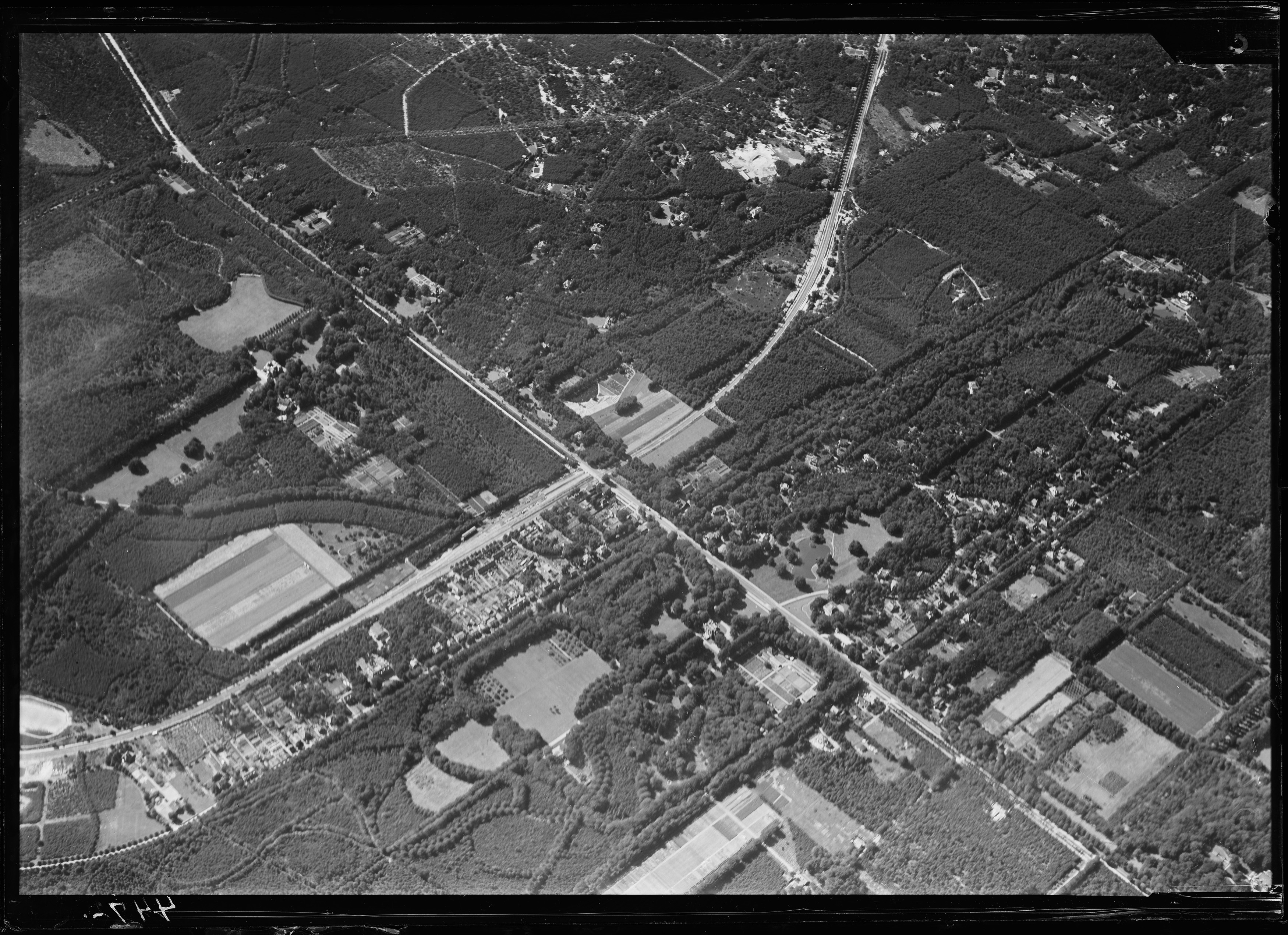 Aerial photograph of Huis ter Heide, The Netherlands